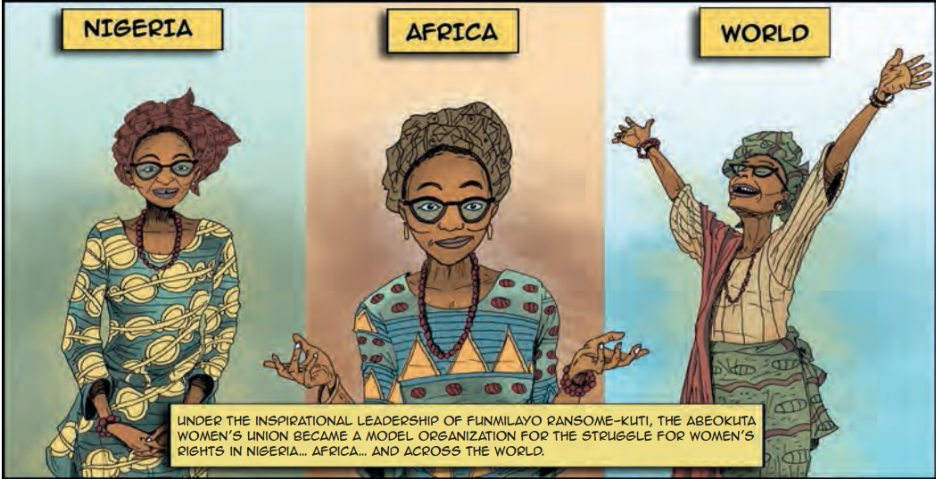 Funmilayo Ransome-Kuti And The Women’s Union of Abeokuta Comic strip Illustrations: Alaba Onajin Script and text: Obioma Ofoego - Published by UNESCO with share alike license